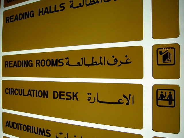 Library, Damascus